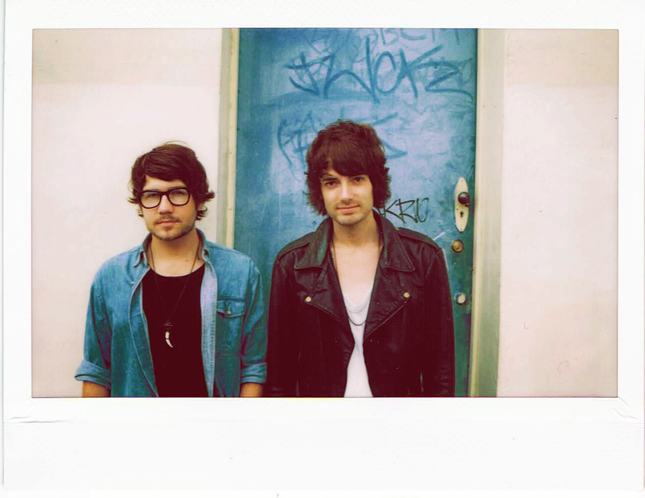 I would like to add an image on the ‘Kids Of 88’ Jordan Arts and Sam McCarthy. wikipedia page: Kids_of_88 I hereby affirm that Sony Music Entertainment is the creator and/or sole owner of the exclusive copyright of Kids of 88 band image and promotional image. The URL of this image is and I have also attached the image. I agree to publish that work under the free license "Creative Commons Attribution-ShareAlike 3.0". I acknowledge that by doing so I grant anyone the right to use the work in a commercial product or otherwise, and to modify it according to their needs, provided that they abide by the terms of the license and any other applicable laws. I am aware that I always retain copyright of my work, and retain the right to be attributed in accordance with the license chosen. Modifications others make to the work will not be attributed to me. I acknowledge that I cannot withdraw this agreement, and that the content may or may not be kept permanently on a Wikimedia project.